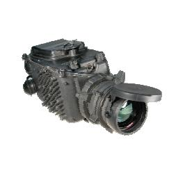 AN/PAS-13B (V)2 Thermal Weapon Sight (TWS)